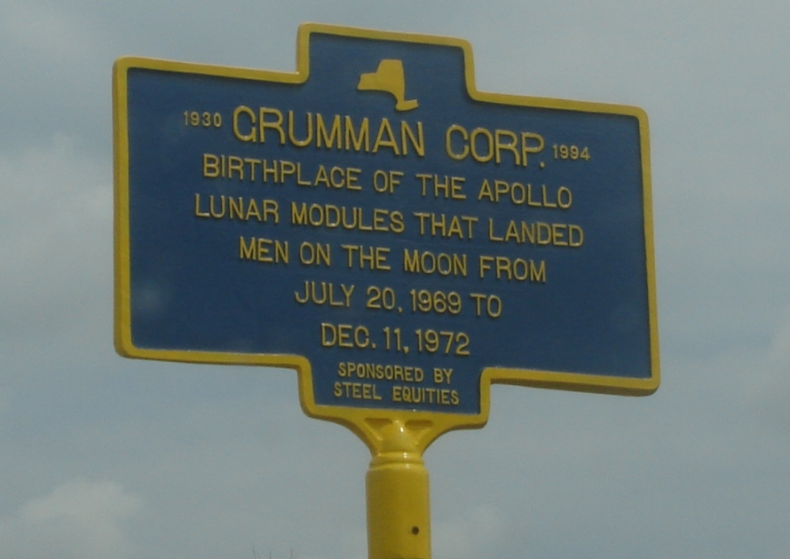 New York State Historic Marker for the Grumman Corp. in Bethpage, NY.